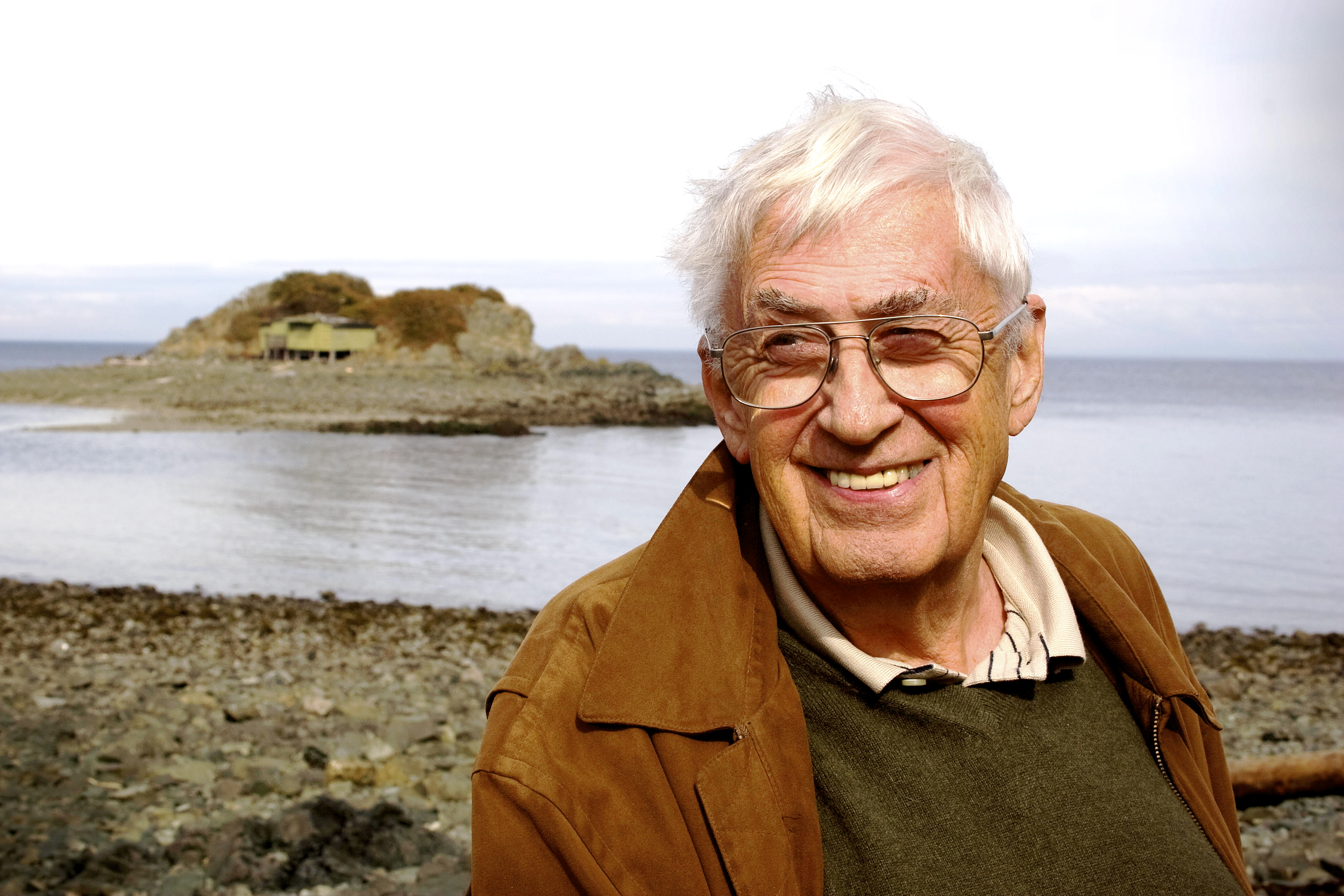 C.S. (Buzz) Holling, celebrated ecologist who first introduced the concept of resilience in ecological systems to describe their ability to resist and recover from natural and man-made disturbances and is renowned for his work on ecosystem and social dynamics.